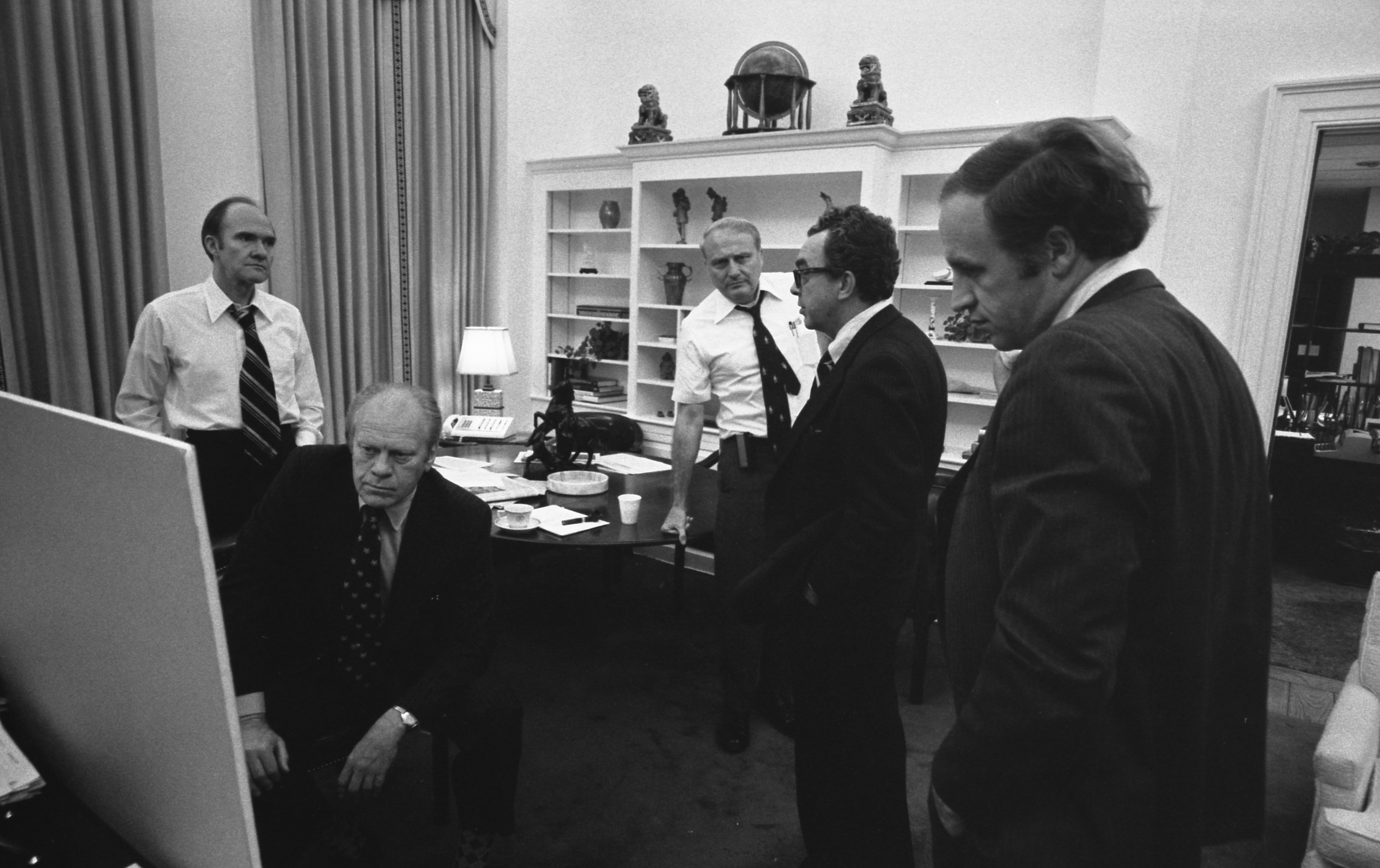 This photograph depicts President Gerald R. Ford listening during a meeting following the assassinations of Ambassador to Lebanon Francis E. Meloy, Jr. and Economic Counselor Robert O. Waring in Beirut, Lebanon.